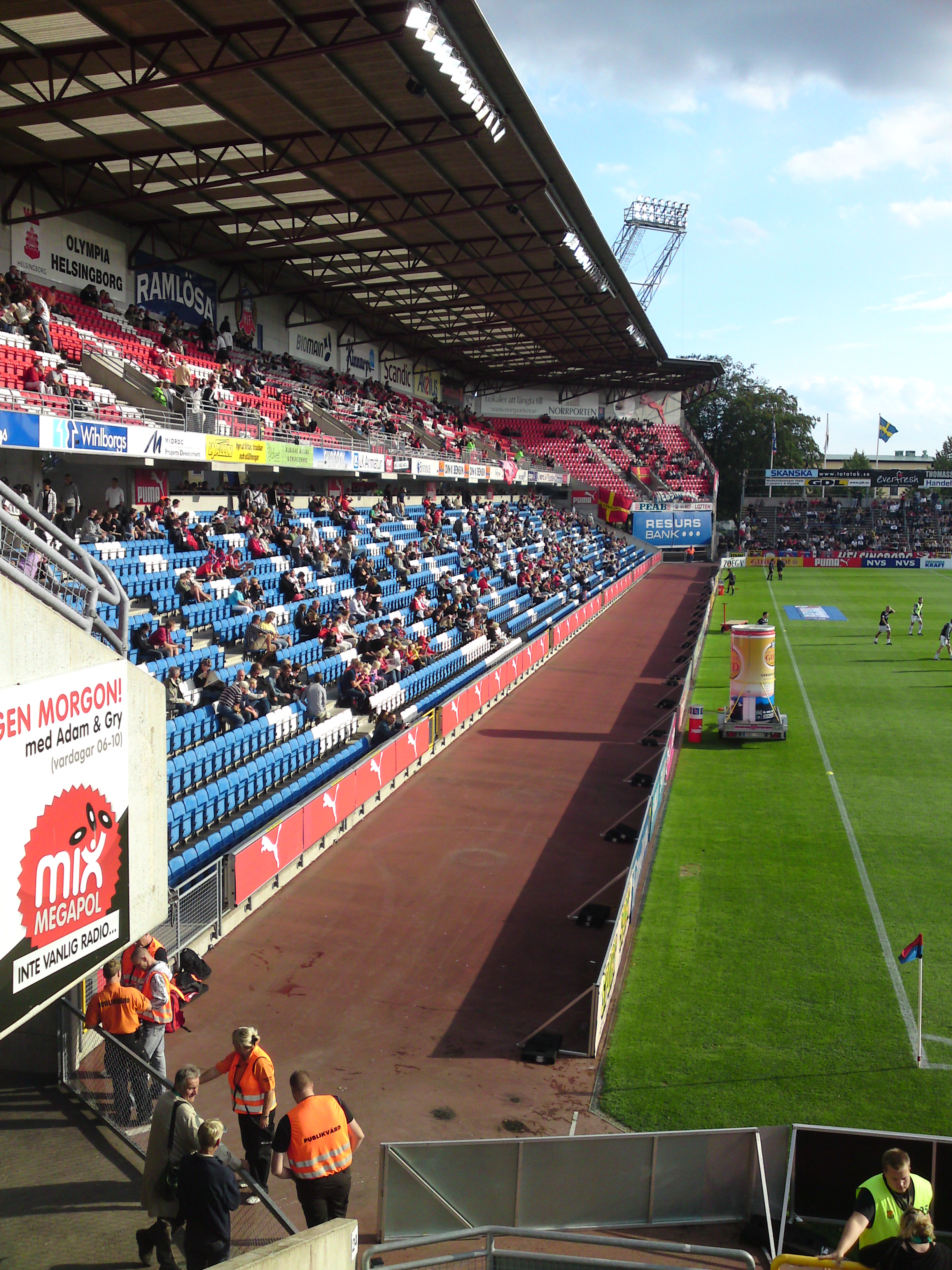 The football stadium Olympia in Helsinborg, Sweden during the Fotbollsallsvenskan game Helsingborgs IF-GAIS (0-1).